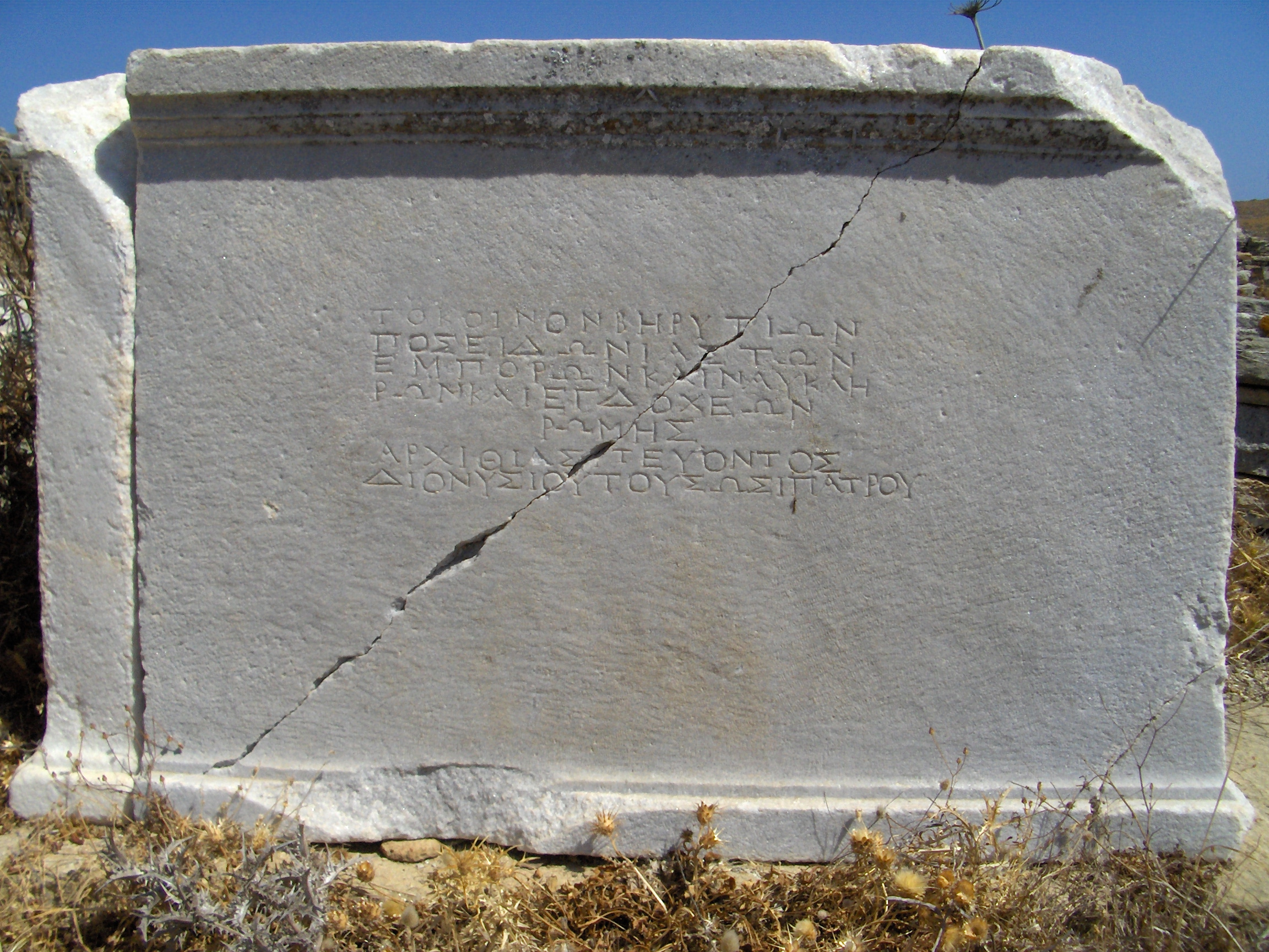 Ruins at the island of Delos.